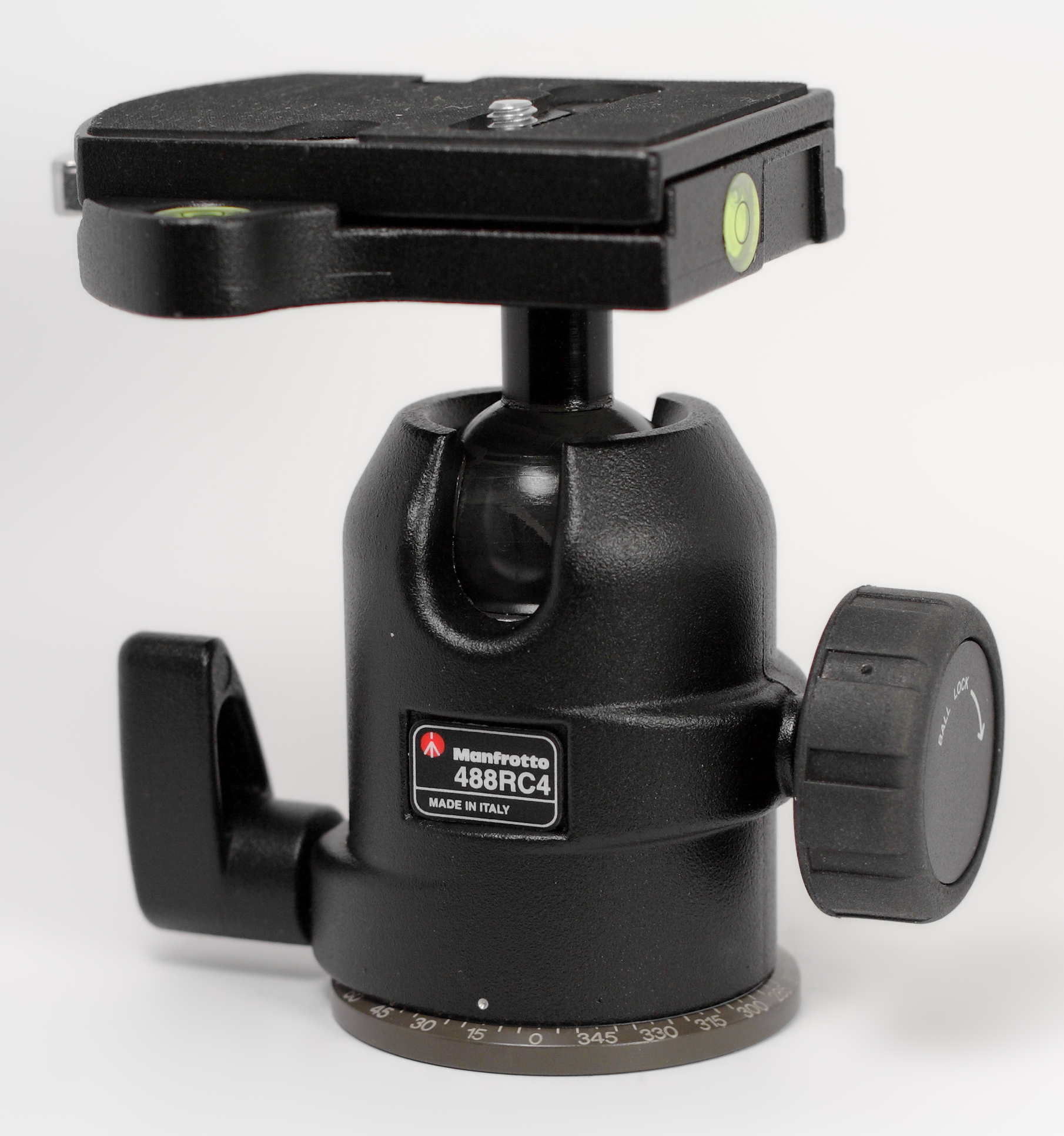 Photo of Manfrotto 488 MIDI ball head, with RC4 quick release plate.